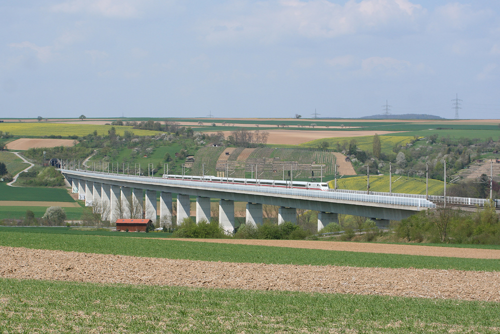 An ICE 1 travelling along the Enztal bridge, near Vaihingen (Enz).